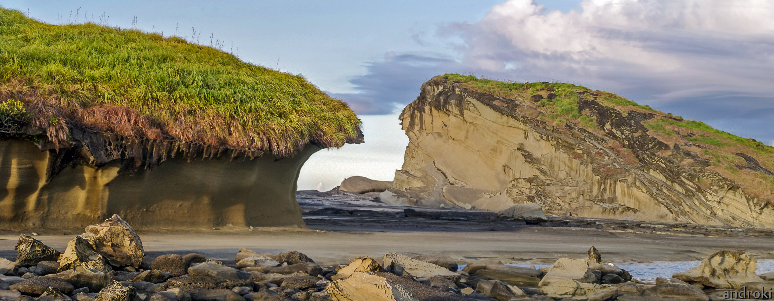 Mag-asang and Magsapad rock formations